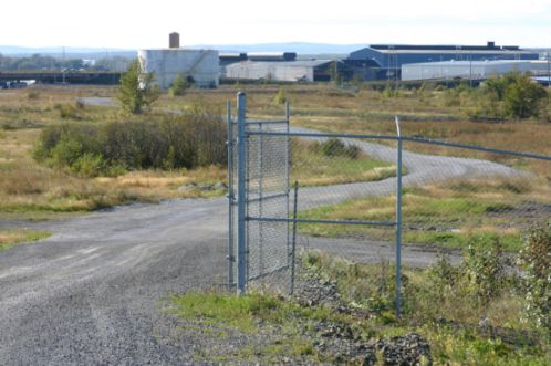 Byproducts from coke ovens that operated on this property for 88 years contaminated the Sydney Tar Ponds. The site will be cleaned up as part of the Tar Ponds project.